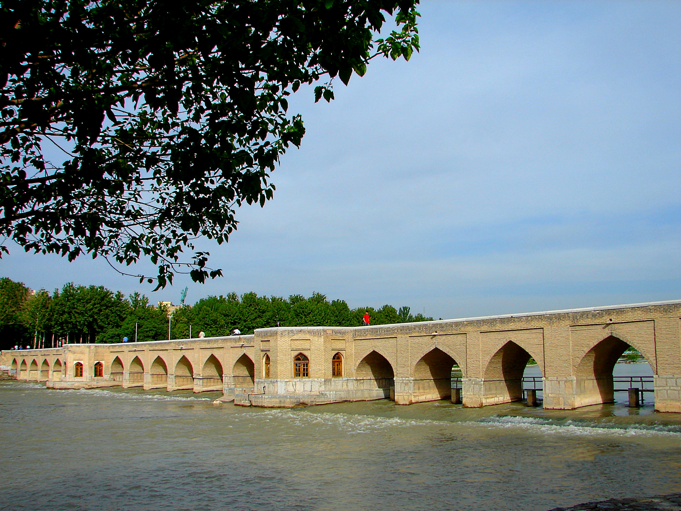 Choobi Bridge - Esfahan